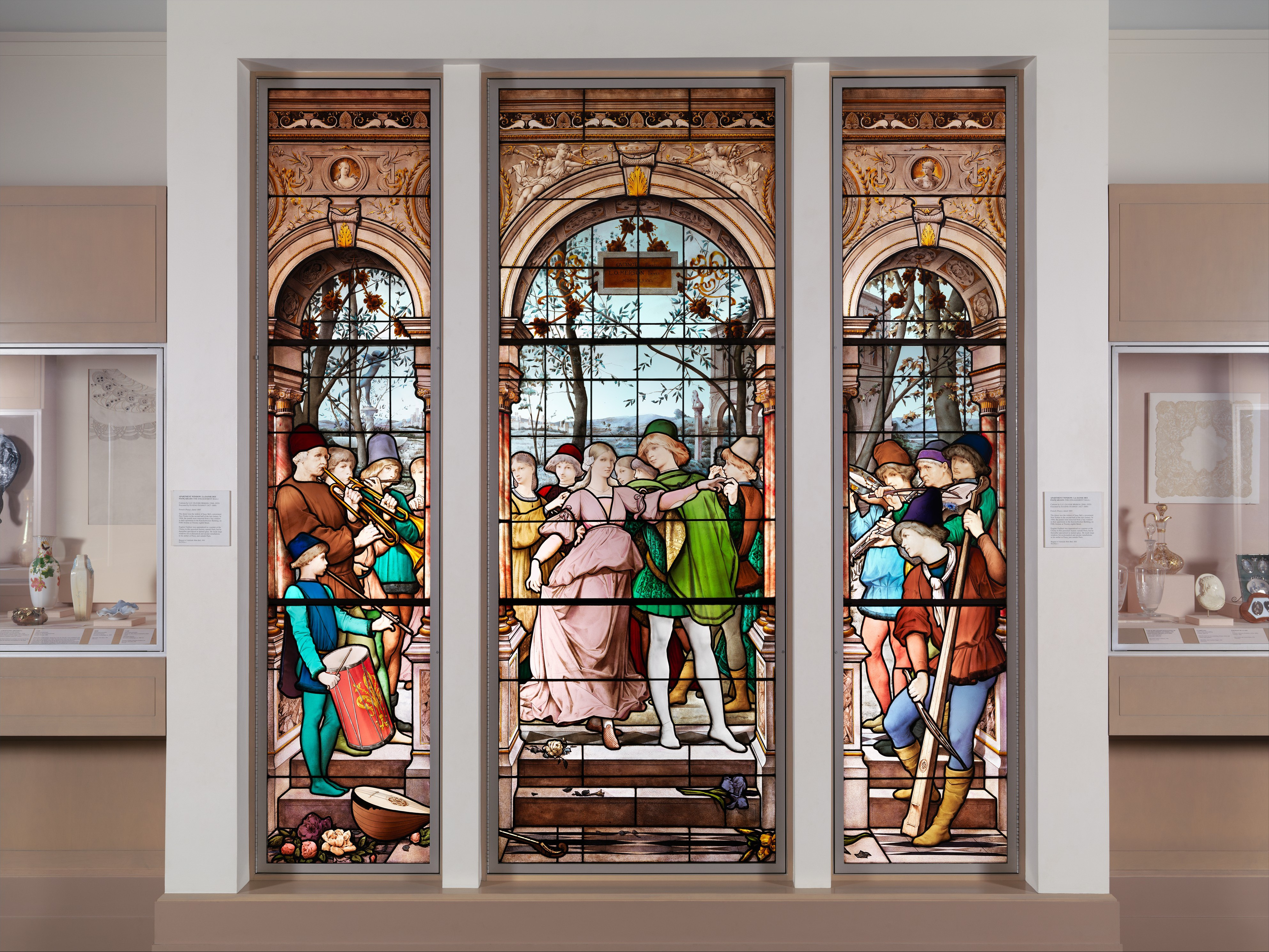 French, Paris; Window; Glass-Stained